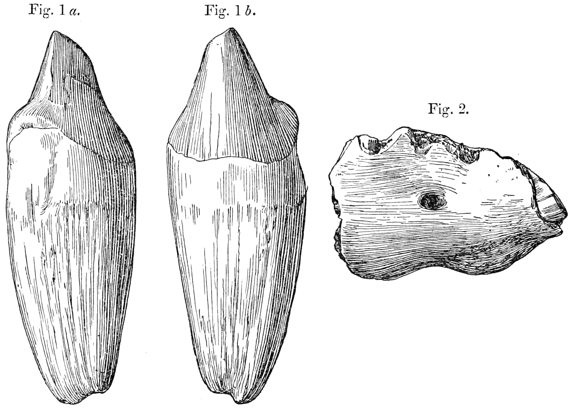 Two views of an incisor of Paraceratherium bugtiense. Left: inner surface. Right: outer surface. Dimensions: (in centemetres) From tip of tooth to end of the enamel outside—5.9 Greatest width of the enamel at base—5.5 Greatest width of root—5.6 Length of root—10.0